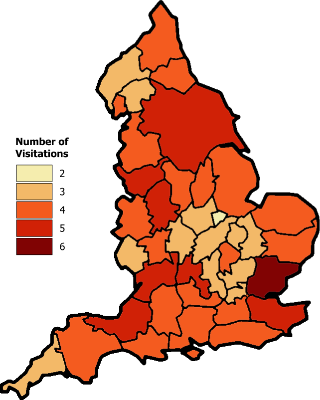 Map of the traditional counties of England showing the number of heraldic visitations carried out in each county by the official Kings of Arms. •Note that Monmouthshire, at the time considered an English county, but now considered part of Wales, is not shown. One visitation of Monmouthshire was carried out. One visitation of the city of Chester was also carried out (not shown). The approximate location of London, in which four visitations were carried out, is indicated by a dot of the appropriate colour. Background Heraldic Visitations were tours of inspection undertaken by Kings of Arms in England, Wales and Ireland in order to regulate and register the coats of arms of nobility and gentry and boroughs, and to record pedigrees. They took place from 1530 to 1688, and their records provide important source material for genealogists.